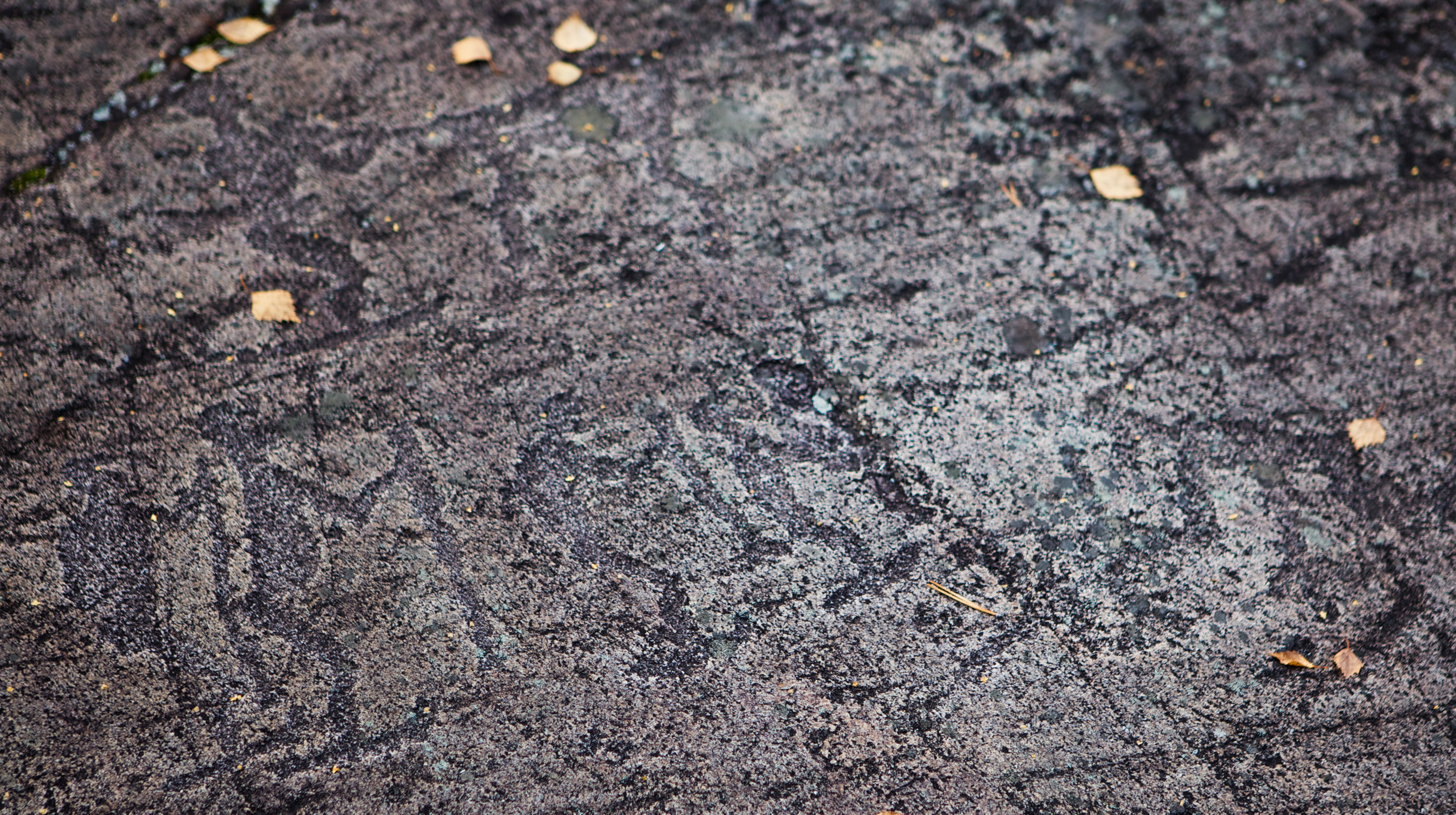 Petroglyphs in Zalavruga